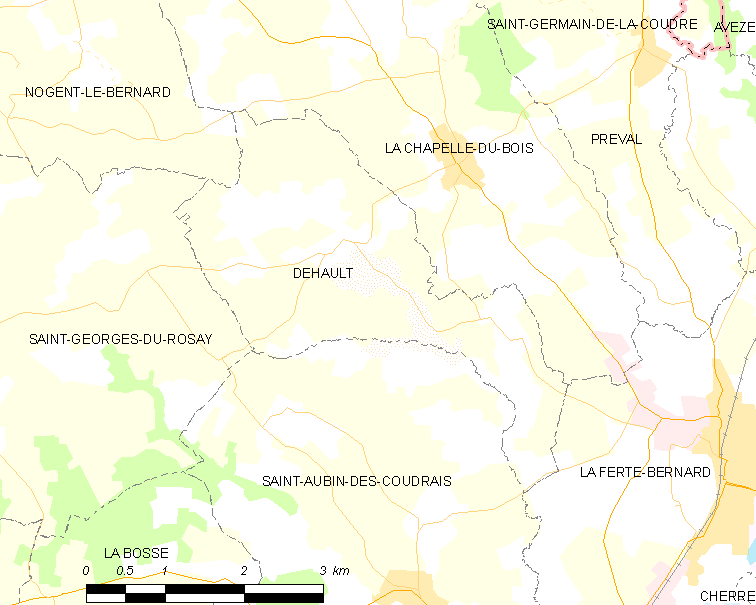 Map of French municipality